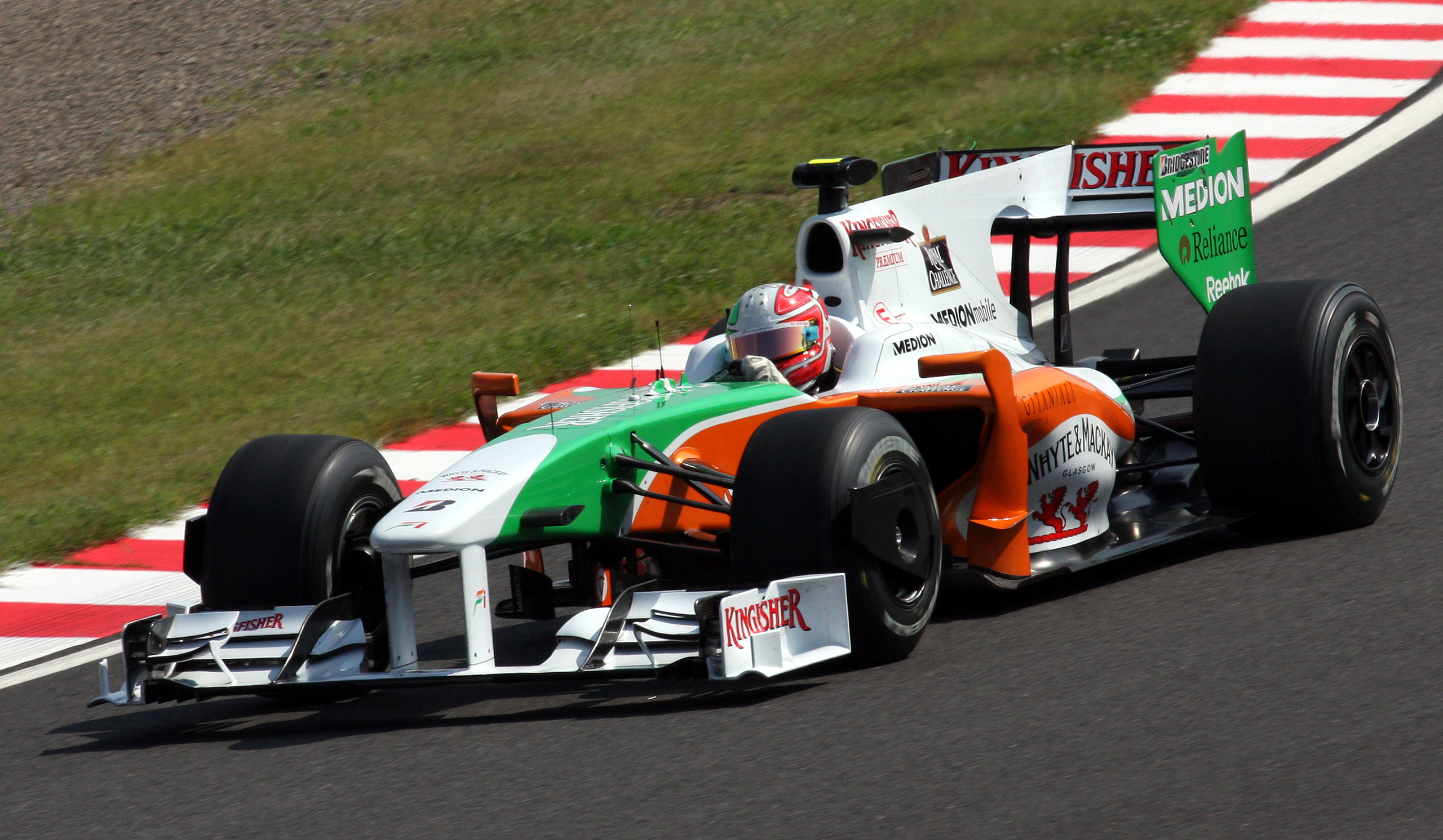 Formula One 2009 Rd.15 Japanese GP: Vitantonio Liuzzi (Force India) running in Saturday 3rd Free Practice session.